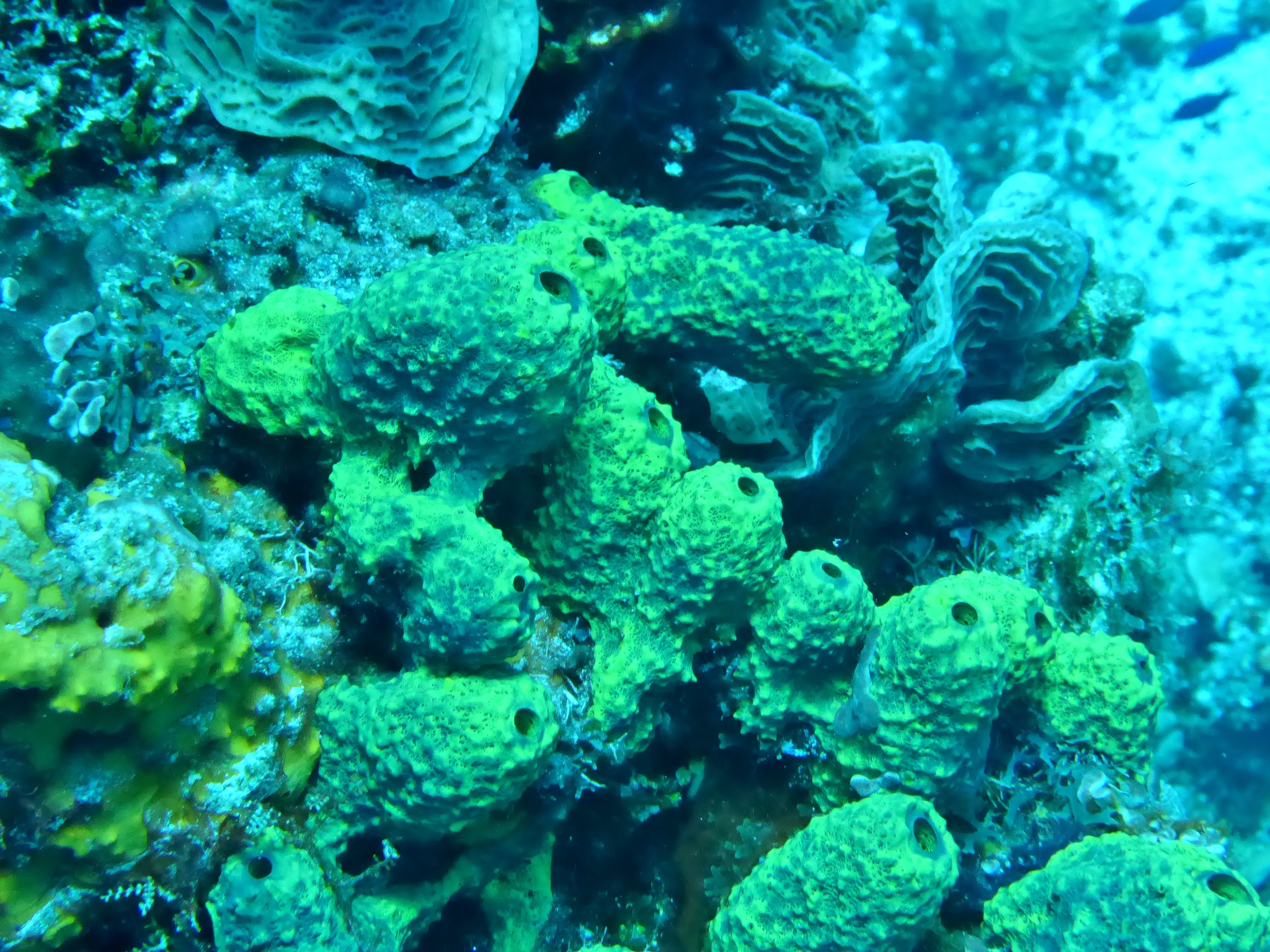 Branching Tube Sponge (Aiolochroia crassa). Species of marine invertebrate.